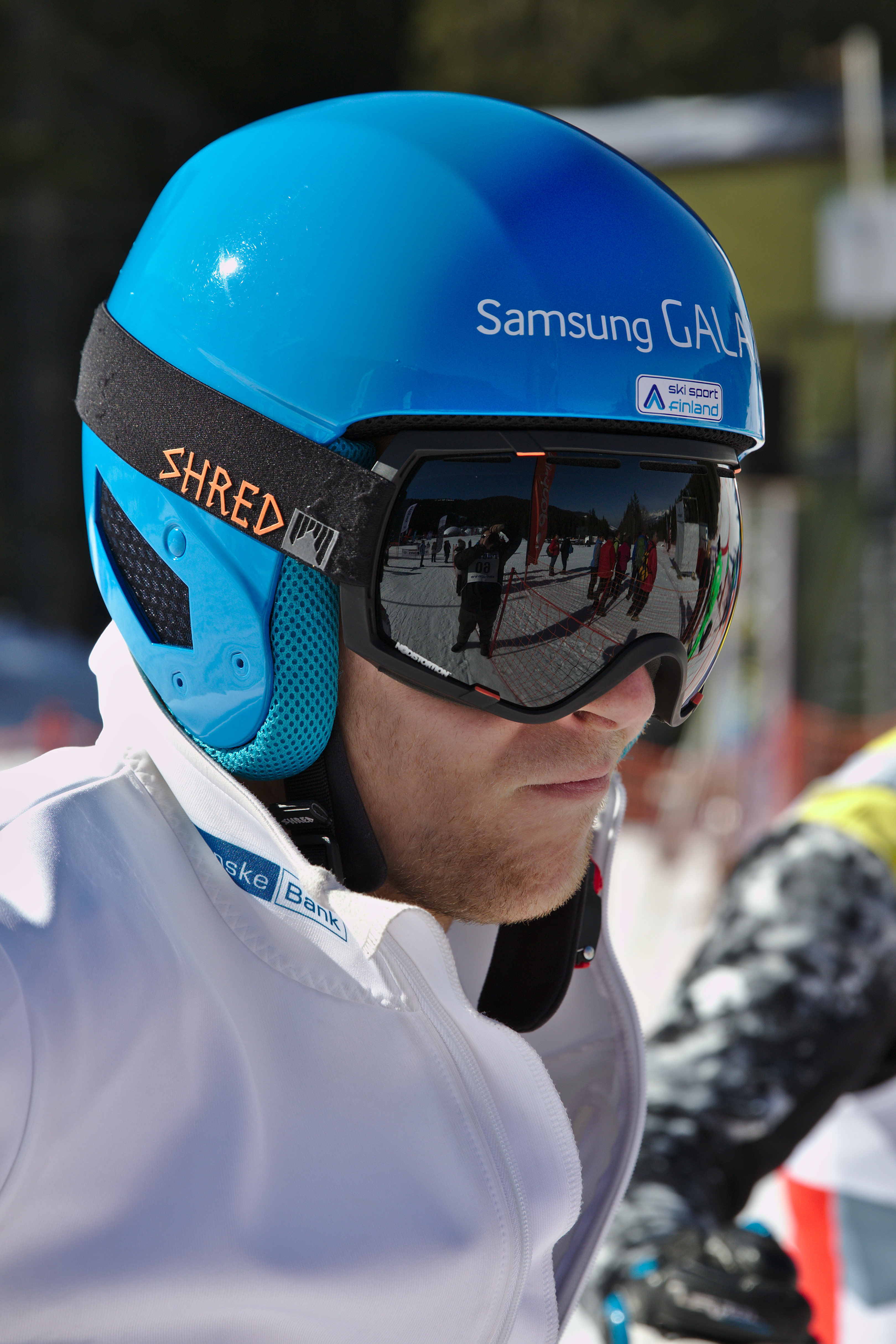 FIS Ski Cross World Cup 2015 - Megève - 20150313 - Jouni Pellinen